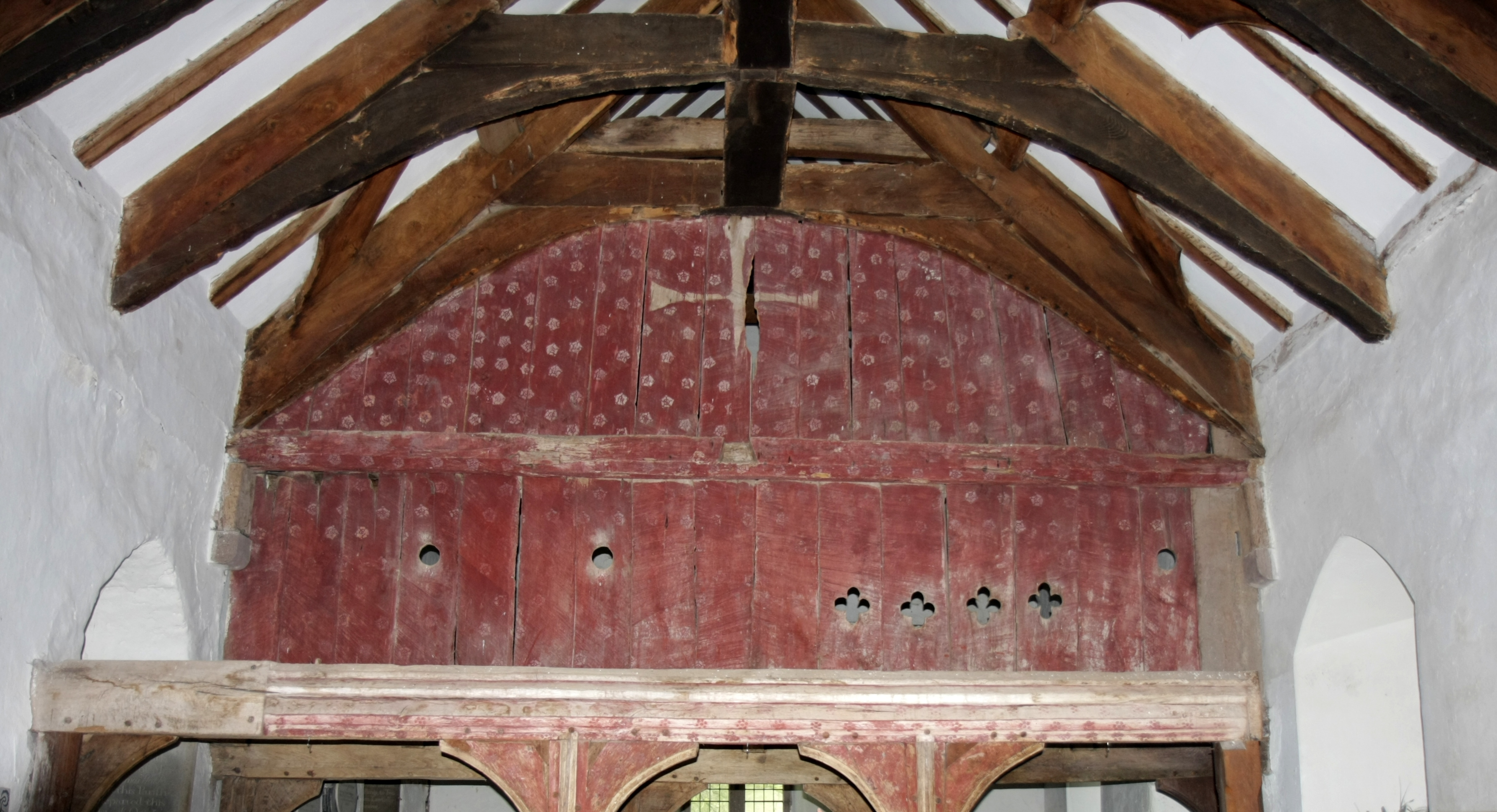 The 14th century rood loft and the upper part of the rood screen in St Ellyw's Church, Llanelieu, Powys, Wales